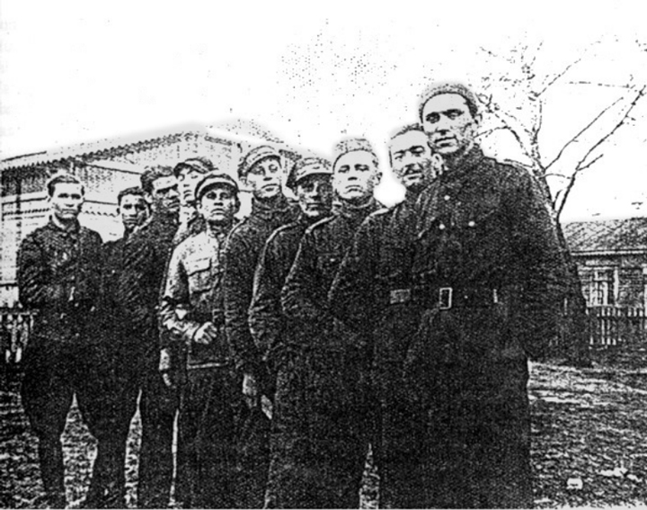 Nalibock self-defense unit. Published in Mieczysław Klimowicz's book The Last Day of Naliboki